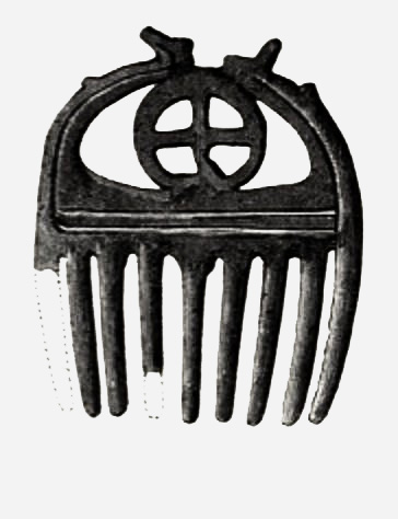 Bronze comb from Flädje, Alfshög parish, Faurås hundred, Falkenberg municipality, Halland, Sweden. The comb belongs to Bronze Age Period V.